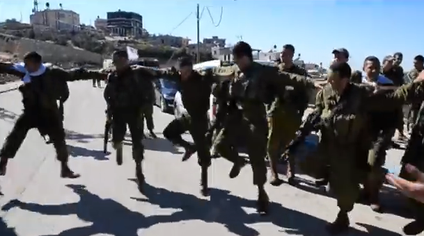 Israeli soldiers dance the Arab Dabka on the streets of Israel.